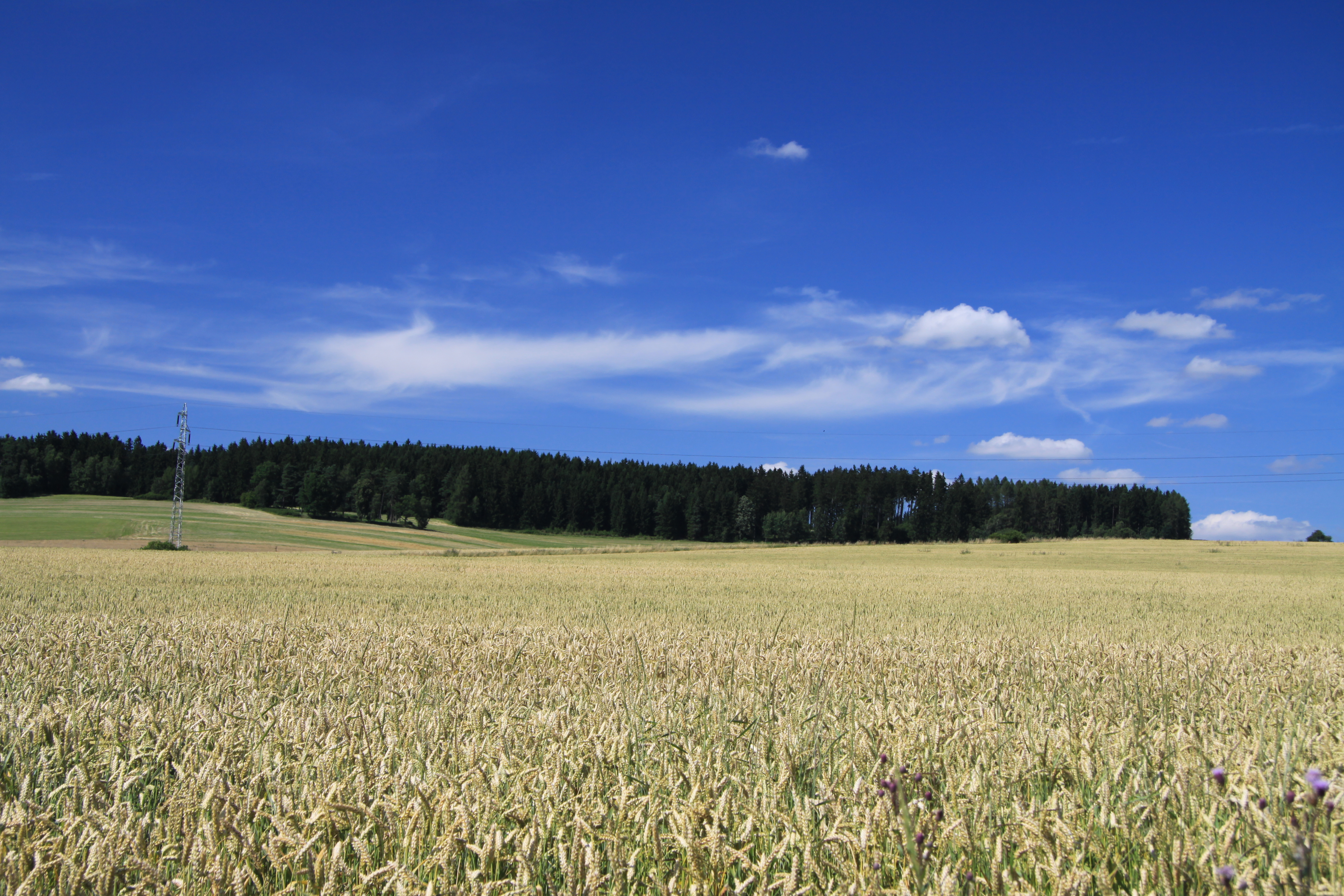 Nature park Polánka in Tábor District, Czech Republic - Google Maps - Google Earth